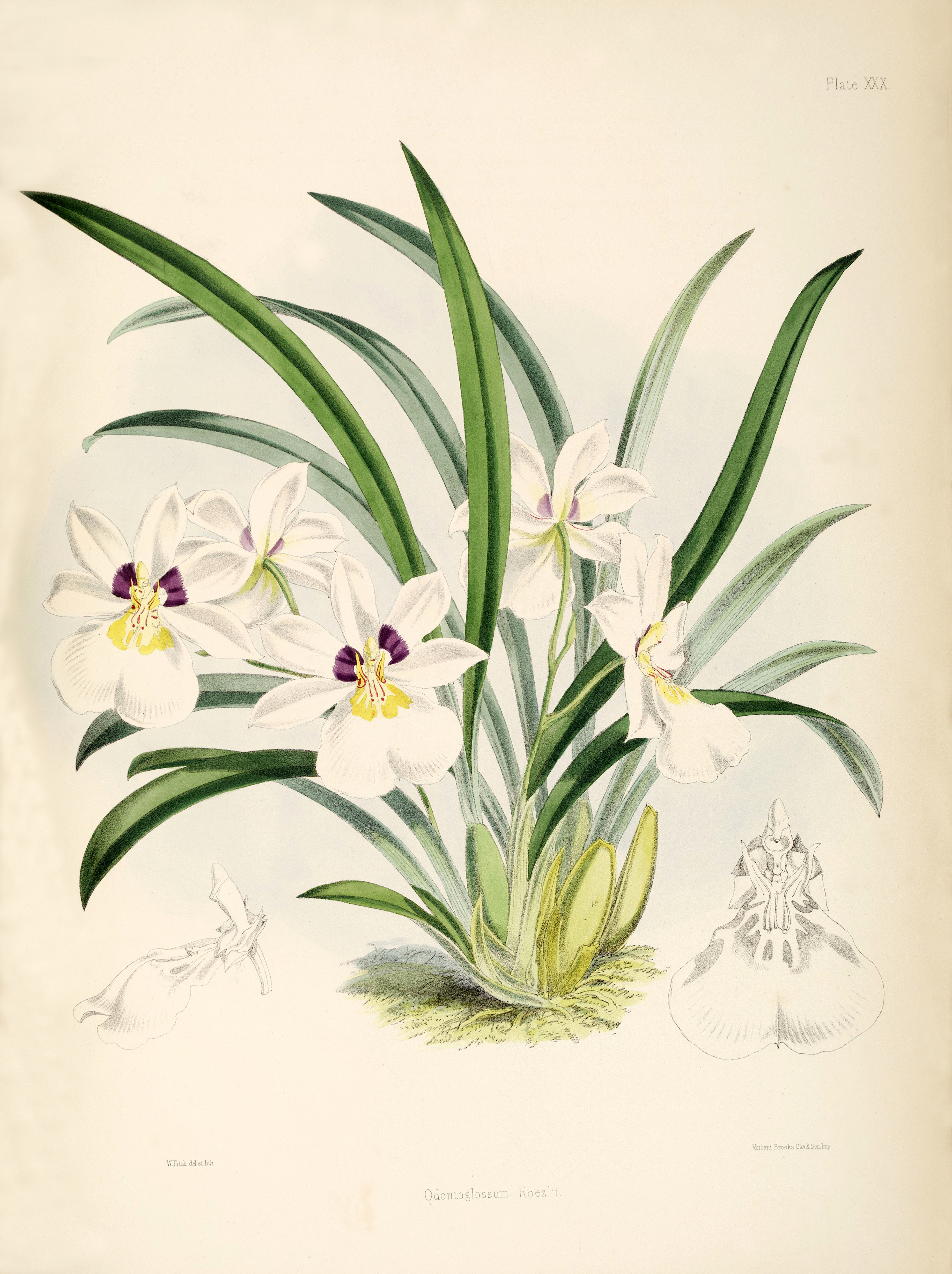 Illustration of Miltoniopsis roezlii (as syn. Odontoglossum roezlii)